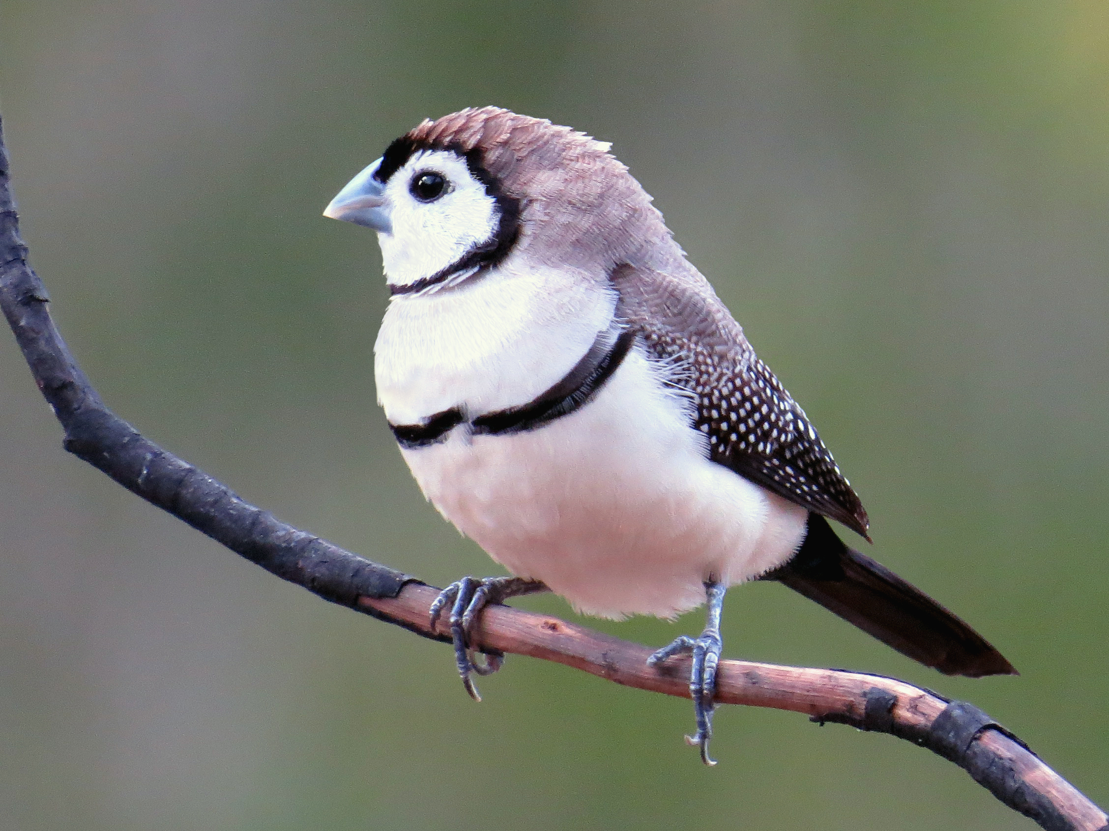 Double-barred finch (Taeniopygia bichenovii) photographed at the Gregory River, north-west Queensland, Australia. The Double-barred finch is a native bird of Australia and is found across the north-western, northern and eastern parts of the continent. There are two forms, one with a black rump in the west, and one with a white rump in the east.